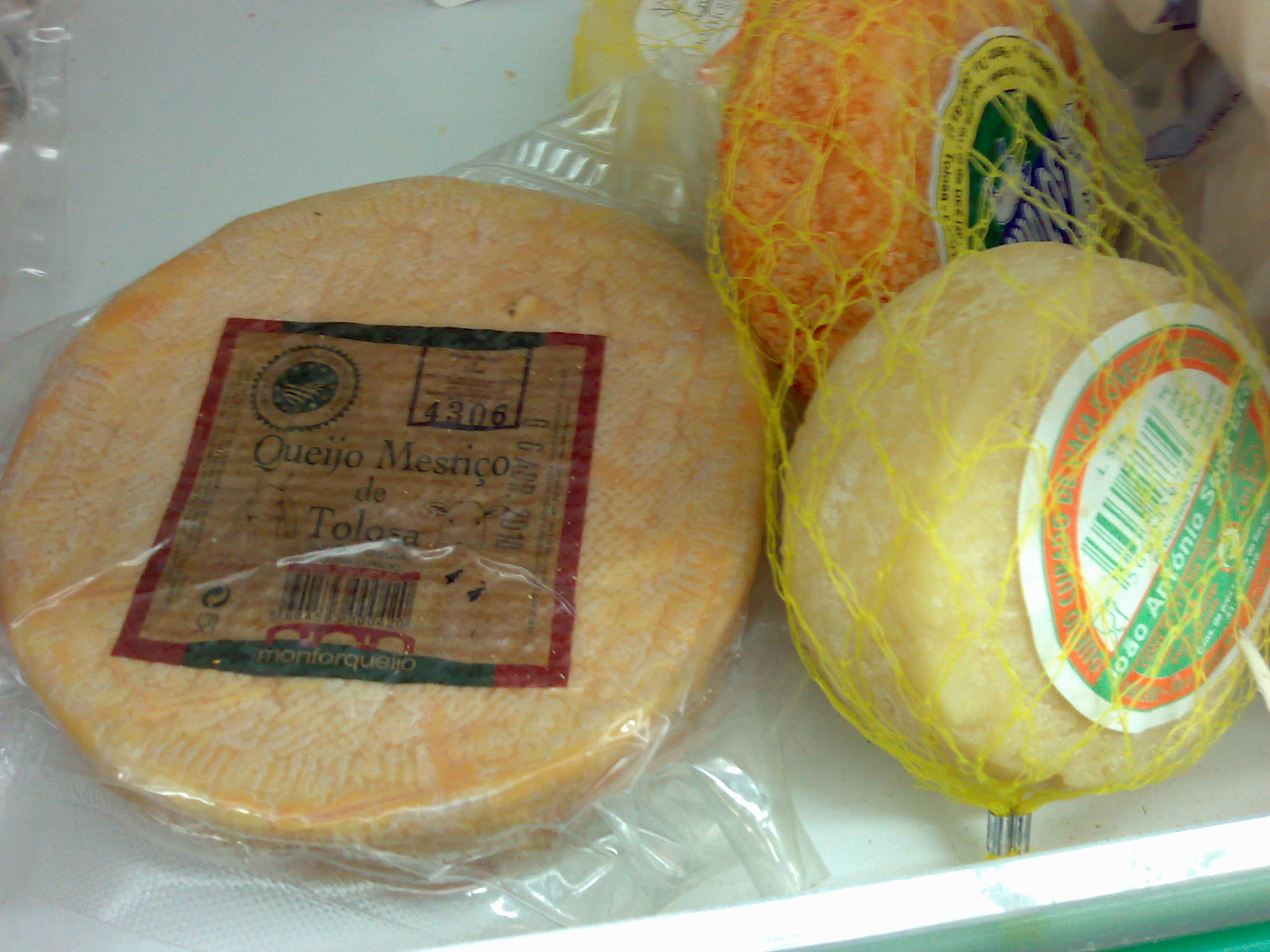 Queijo mestiço de Tolosa, a portuguese cheese.